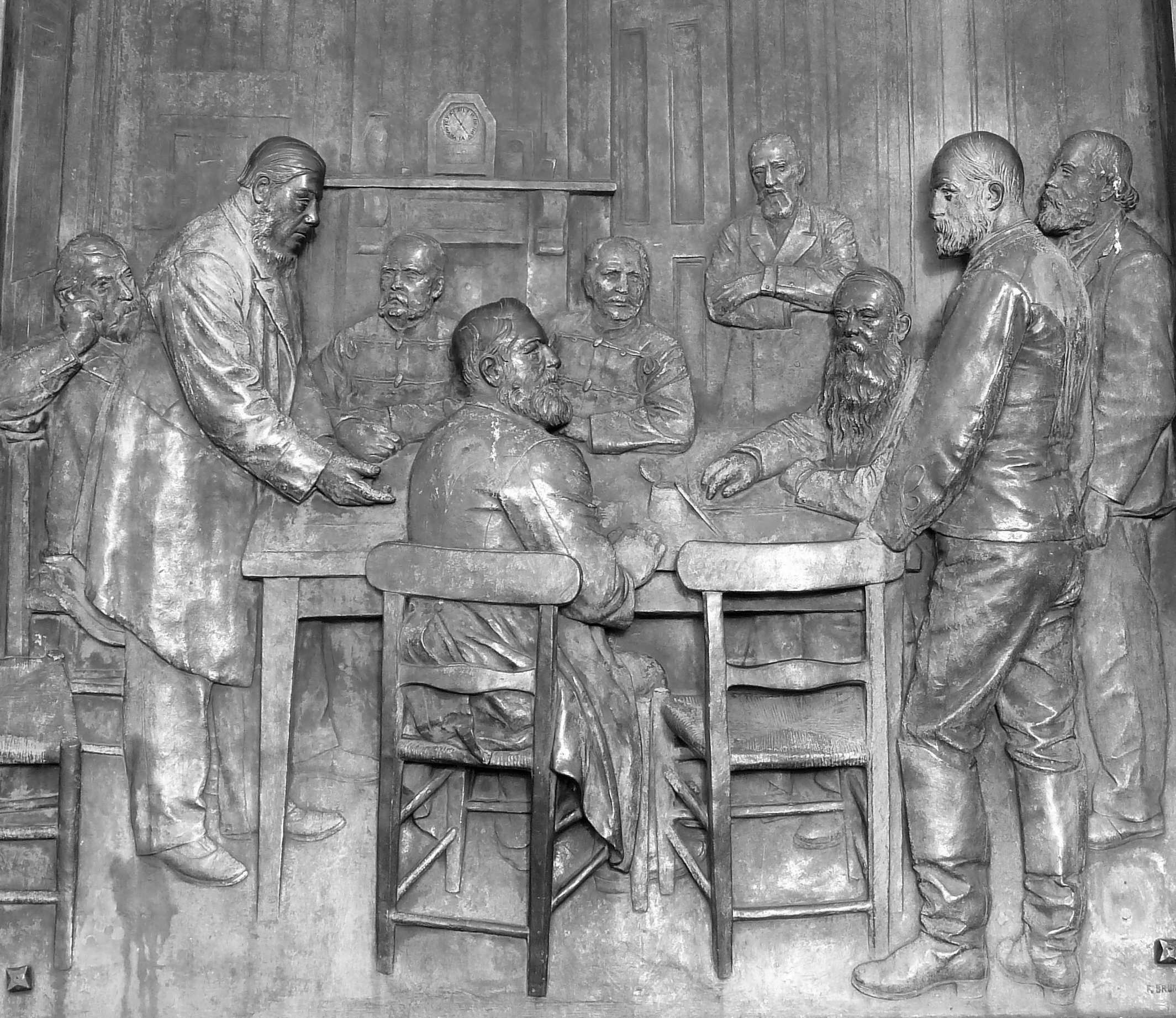 Western side panel of the Kruger statue on Church square, Pretoria. Sir Evelyn Wood, who had replaced Colley upon his death on 27 February 1881, signed an armistice to end the First Boer War, and subsequently a peace treaty with Paul Kruger at O'Neil's Cottage on 6 March, bringing the war to an official end on 23 March 1881. O'Neil's Cottage on Farm Stonewall 3109 is named for the owner of Irish descent, Richard Charles O'Neil (1826-1907), incorrectly given as "O'Neill" in many sources. ↑ O’Neil’s Cottage, Graham Leslie McCallum (2014)